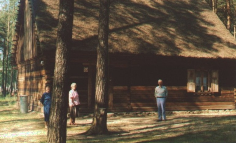 2005 personal photograph of a Kurpie house in Poland.